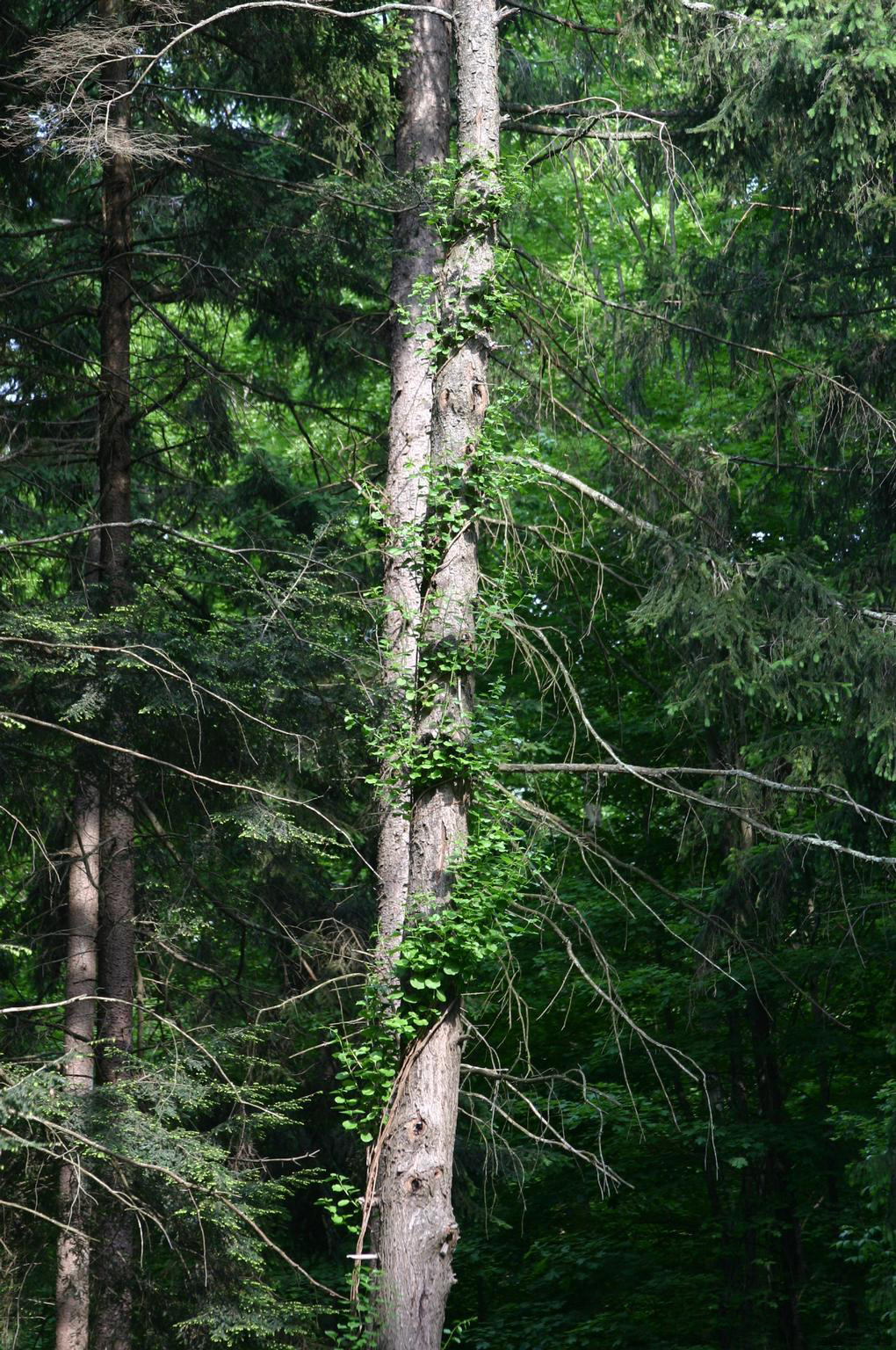 Celastrus orbiculatus Thunb. - oriental bittersweet - growing up tree trunk - USA